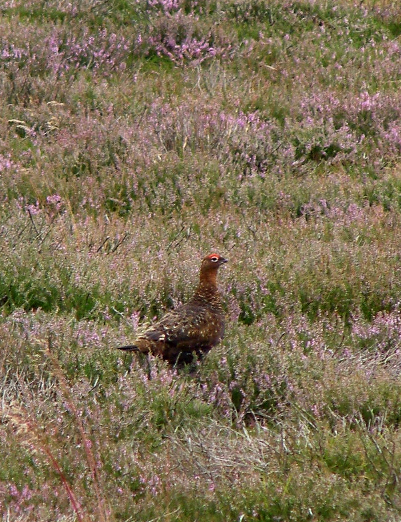 Red Grouse, Guisborough Moor, North Yorkshire, England